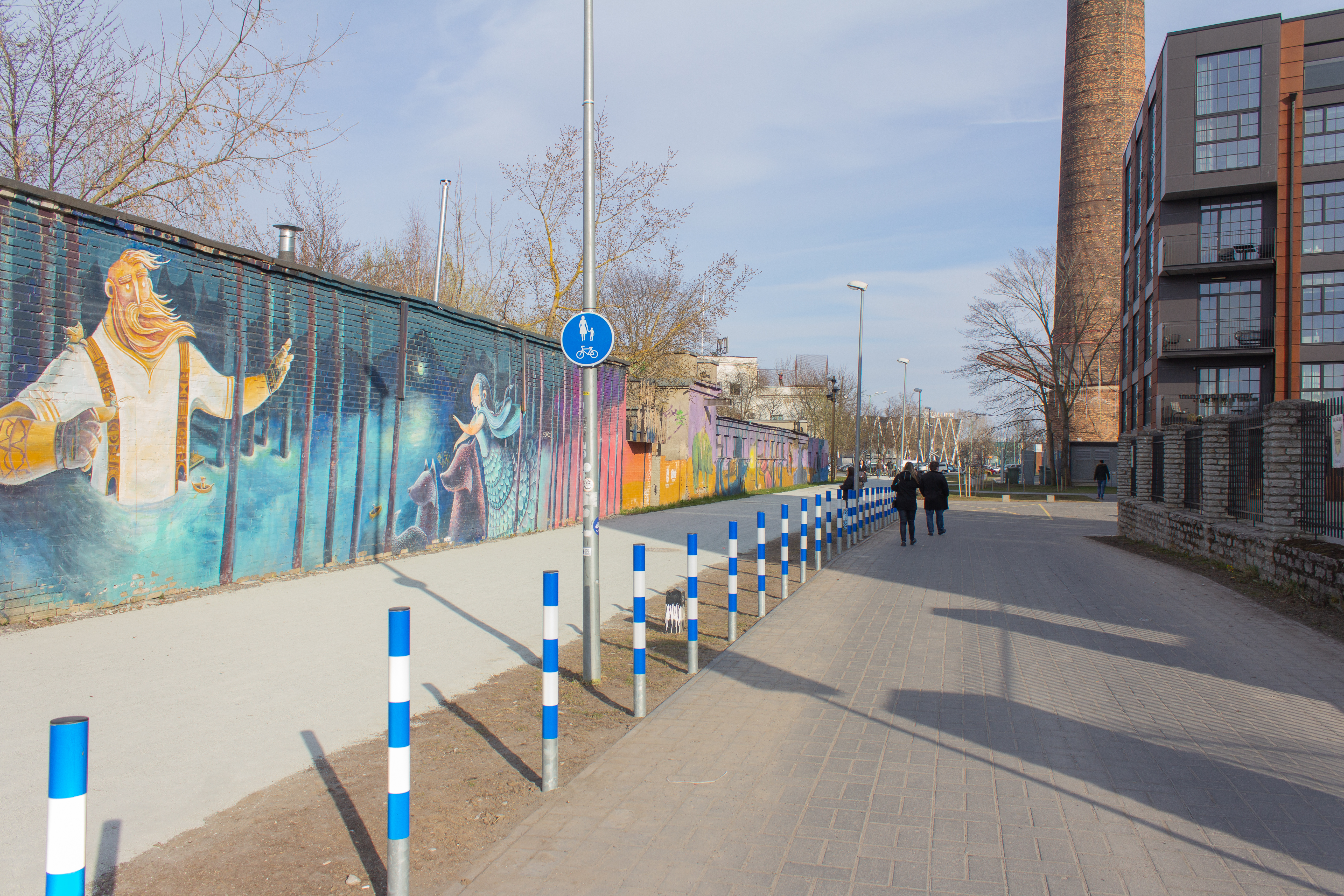 Street Art in Rumbi Street, Tallinn. Part of the Culture Kilometre - Kultuurikilomeeter (2019-04-19)